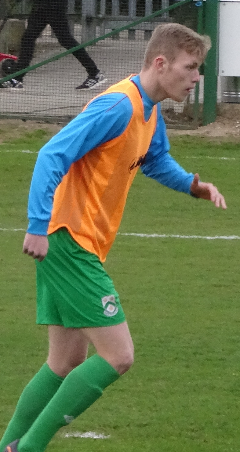 Sam Cosgrove playing for North Ferriby United against Solihull Moors at Grange Lane, North Ferriby on 18 March 2017